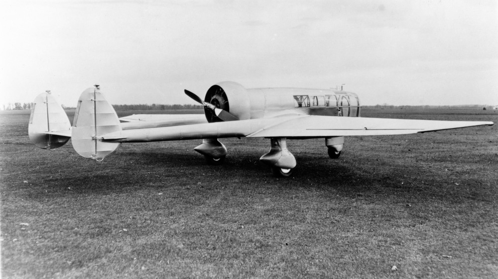 PictionID:40971636 - Title:Explorer Abrams PC-4 Explorer - Catalog:15_002678 - Filename:15_002678.tif - Image from the Charles Daniels Photo Collection album "British Aircraft."PLEASE TAG this image with any information you know about it, so that we can permanently store this data with the original image file in our Digital Asset Management System.SOURCE INSTITUTION: San Diego Air and Space Museum Archive